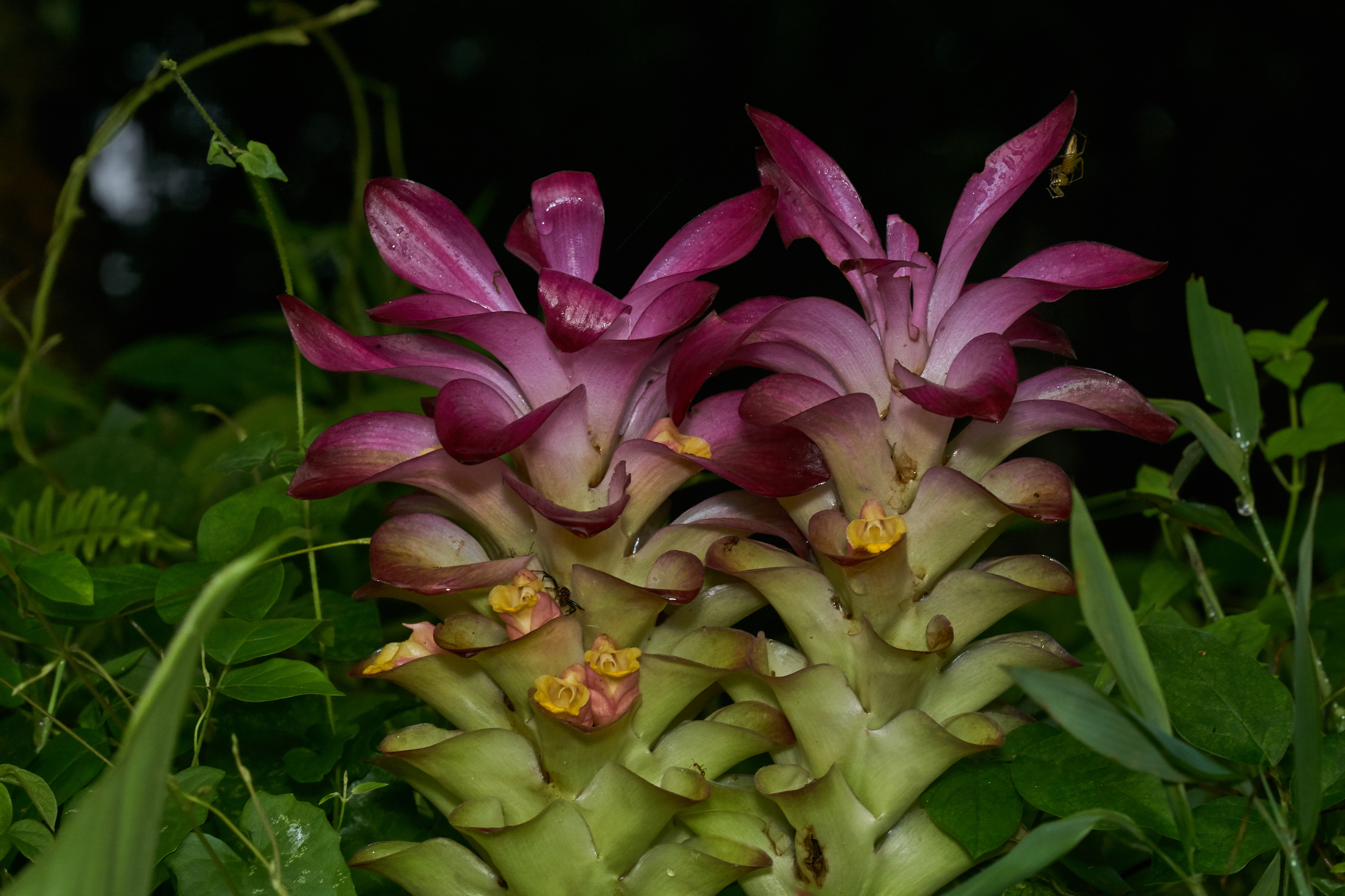 Curcuma angustifolia, East Indian Arrowroot, is a Zingiberaceae species native to the Indian subcontinent.